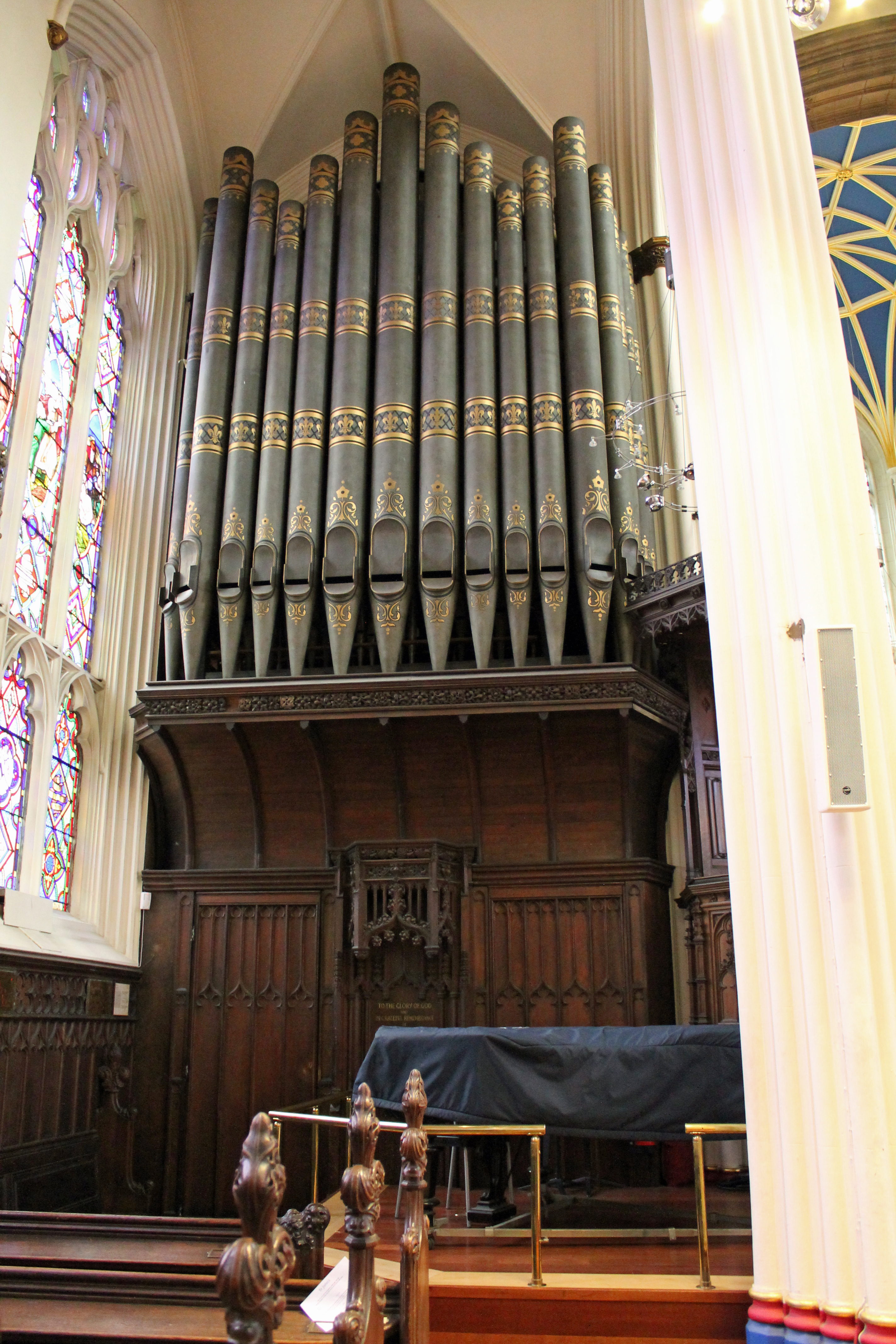 Organ at St Mary's Cathedral, Edinburgh, Scotland